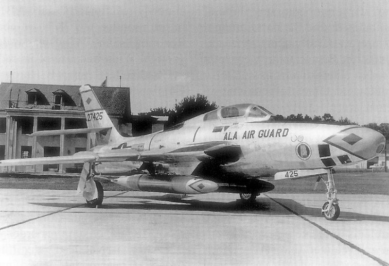 RF-84 of the Alabama Air National Guard.